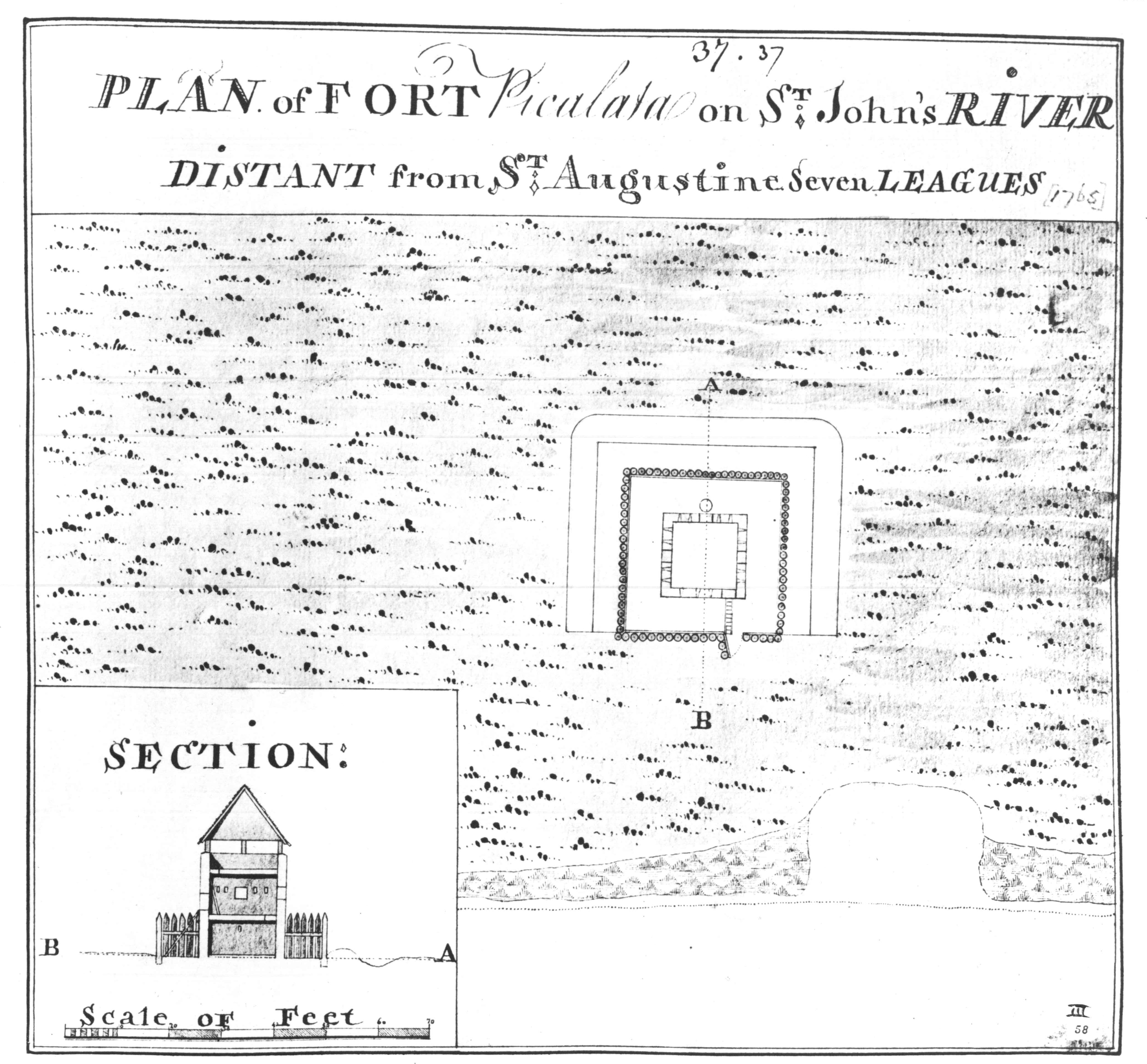 Plan of Fort Picolata prepared by James Moncrief, Captain of the British Royal Engineers in 1765